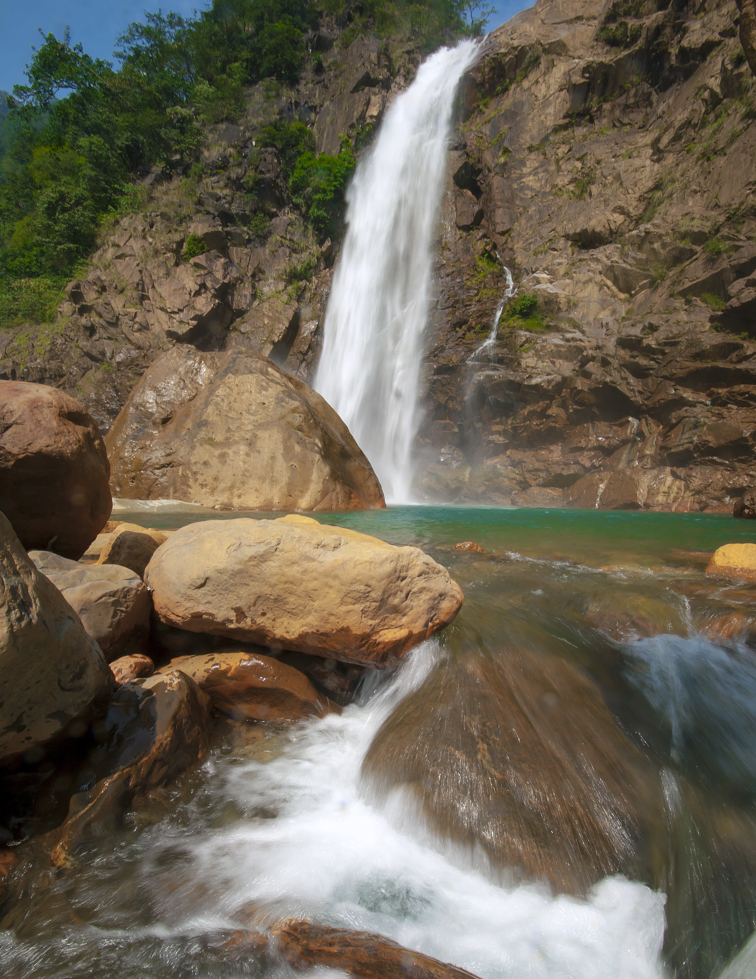 Rainbow falls Meghalaya